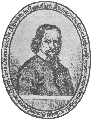 Johann Rudolph Glauber